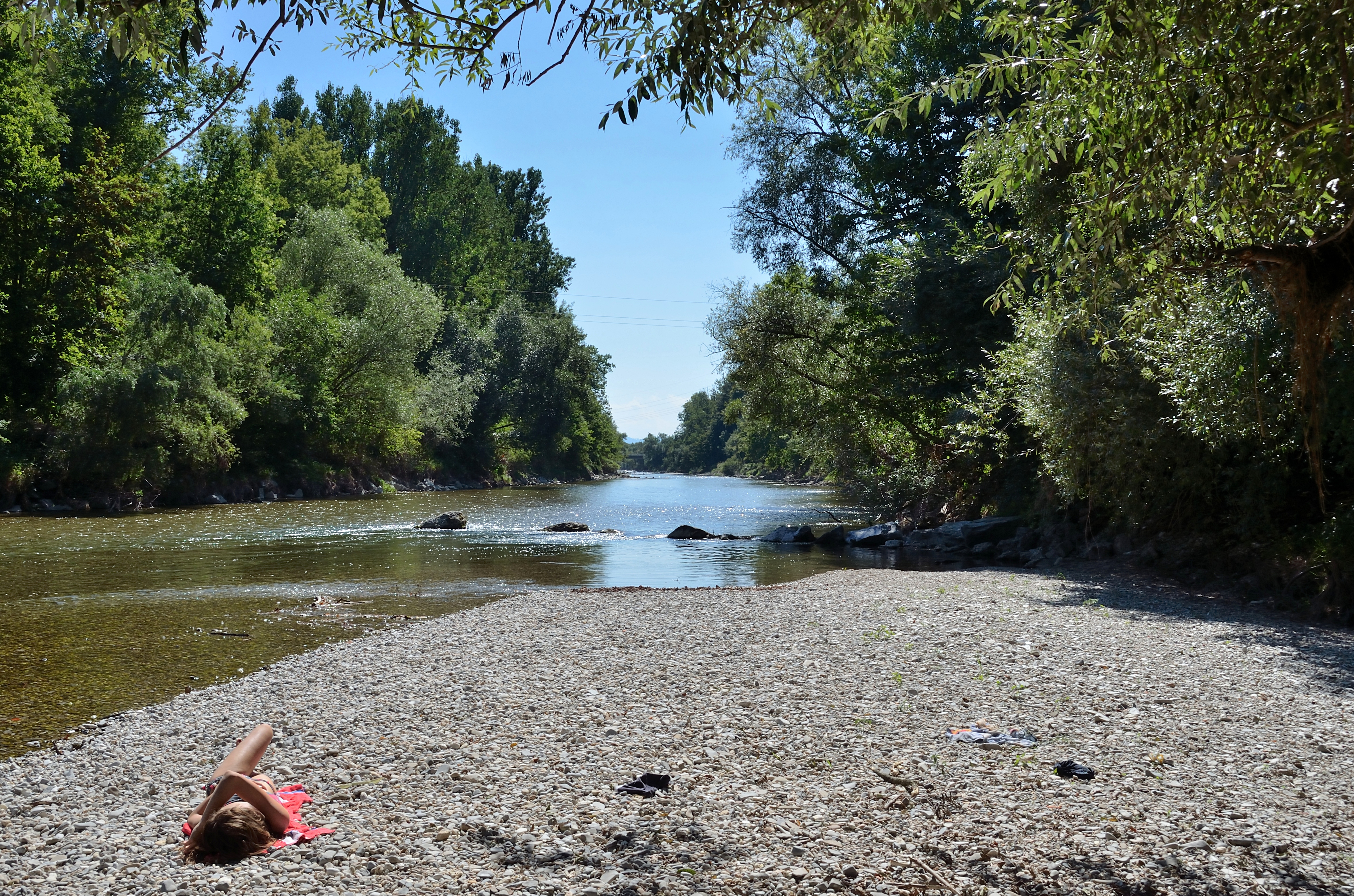 A gravel bar at the river Ager in the municipality of Schlatt, Upper Austria.